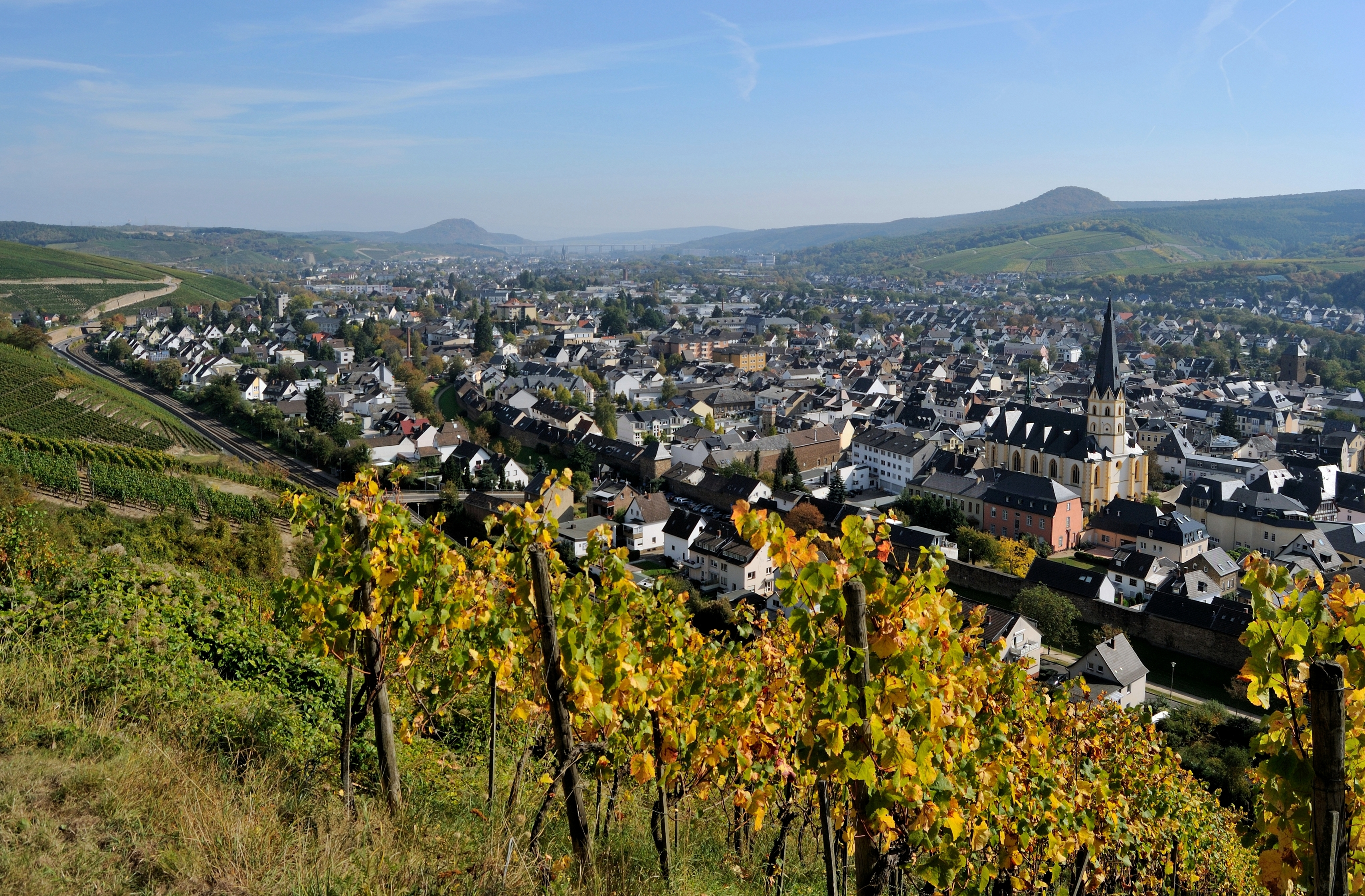 Ahrweiler (Rhineland-Palatinate, Germany) – Red Wine Footpath – view to the city This photograph was taken with a Nikon D3000